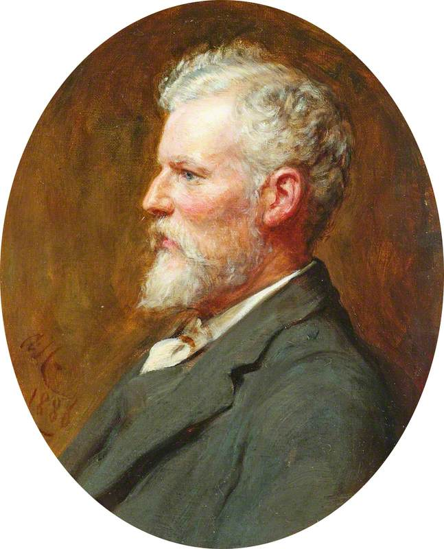 Alfred Waterhouse (1830–1905), RA